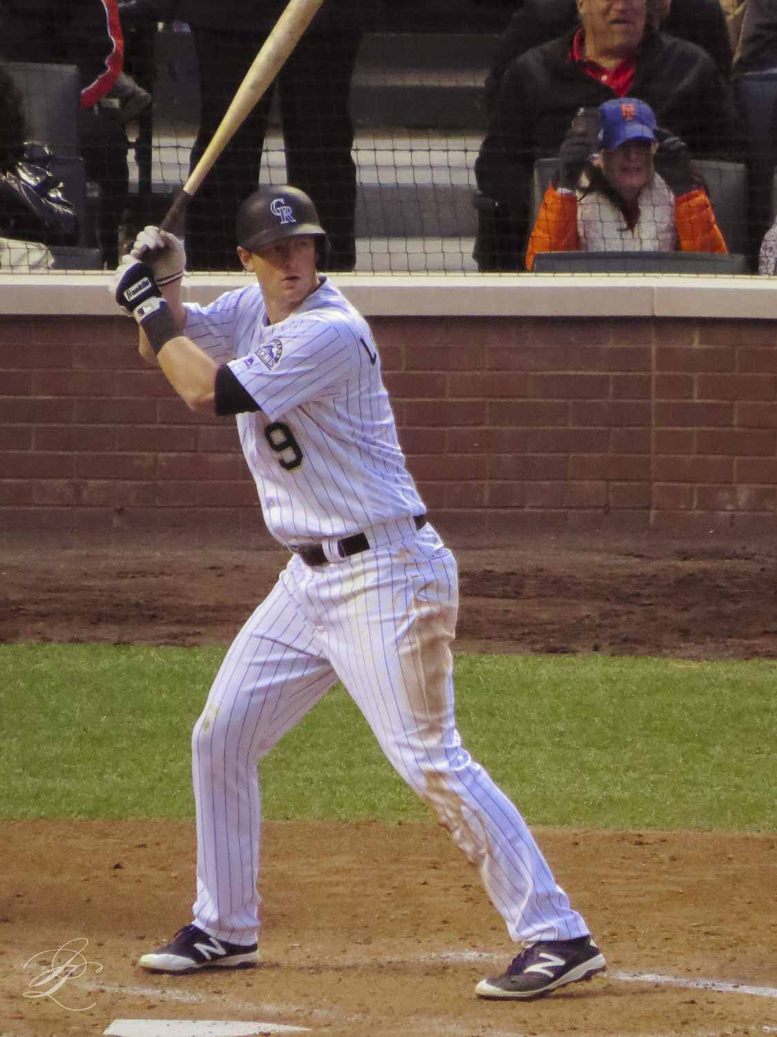 D. J. LeMahieu with the Colorado Rockies, May 14, 2016.